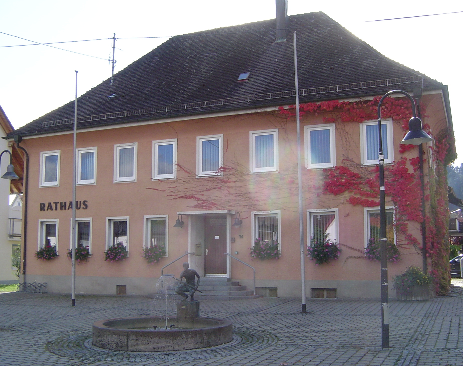 The town hall of Nendingen.